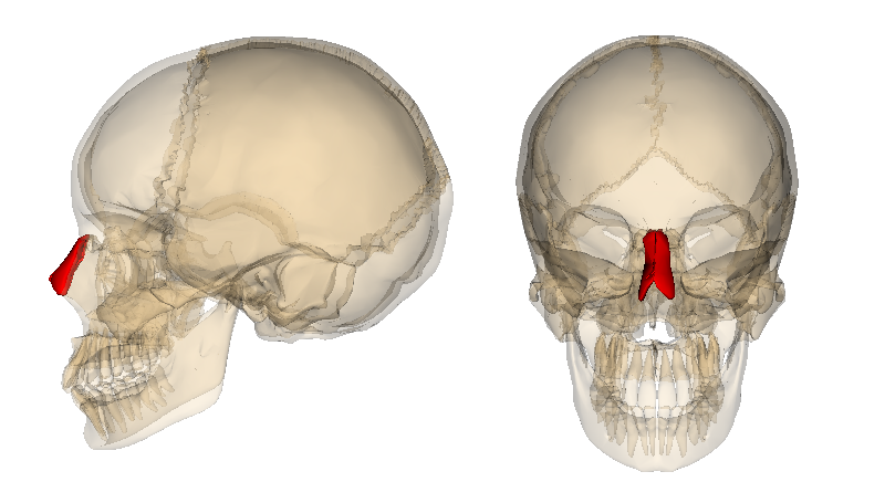 nasal bone. Images are from Anatomography maintained by Life Science Databases(LSDB).